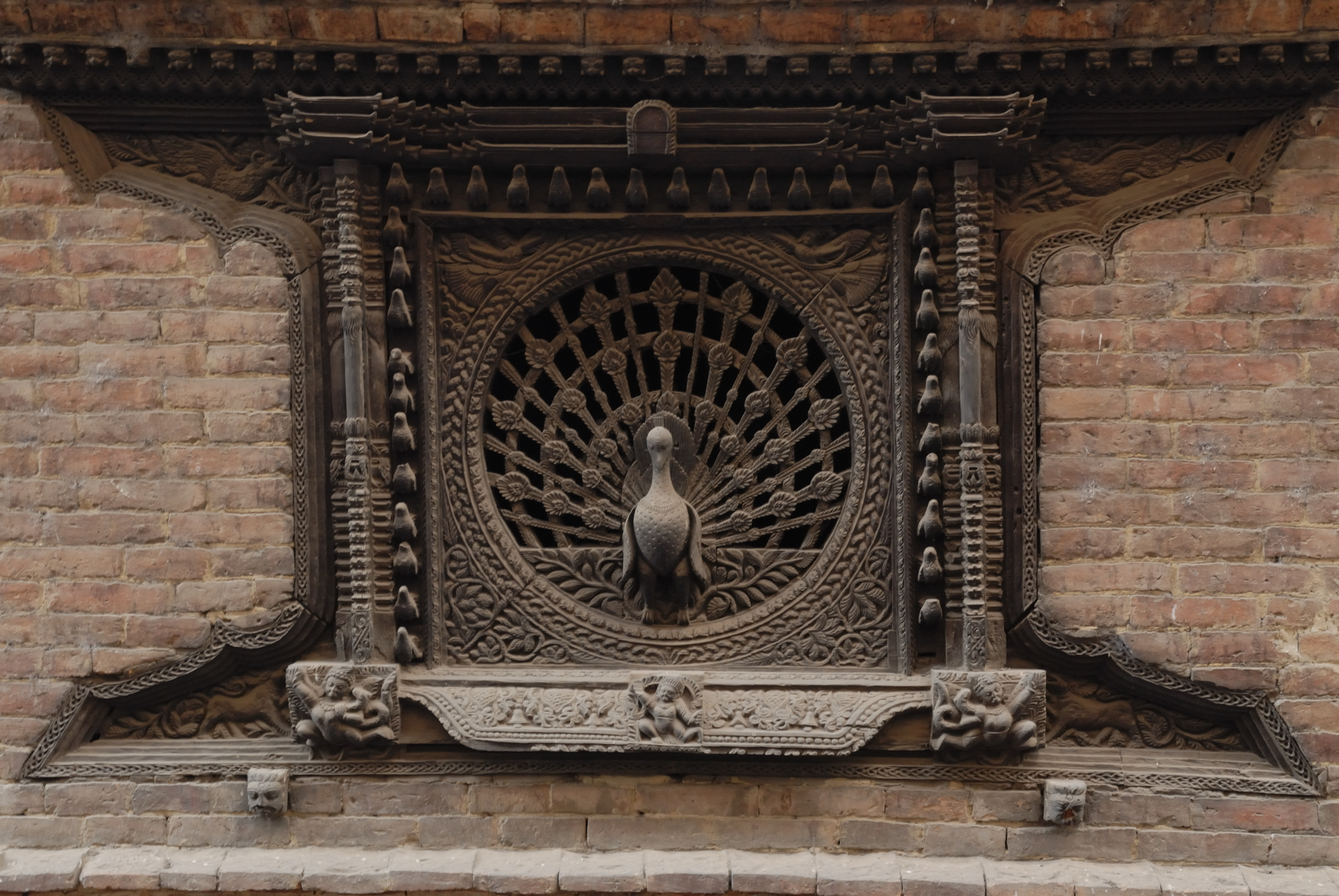 Peacock window Pujari Math - 16th century Bhaktapur